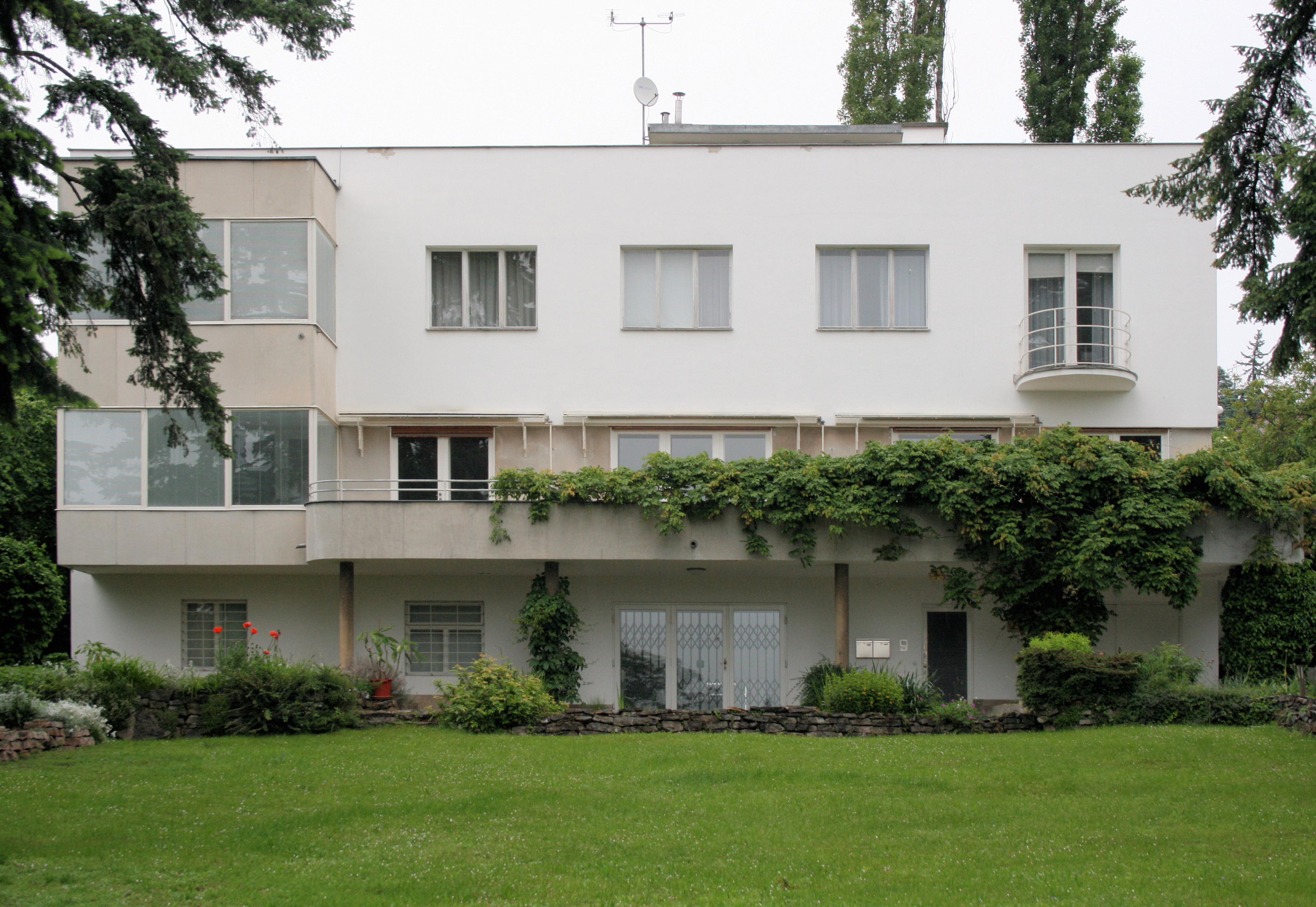 Villa of JUDr. Bedřich Bass in Brno, Czech Republic.